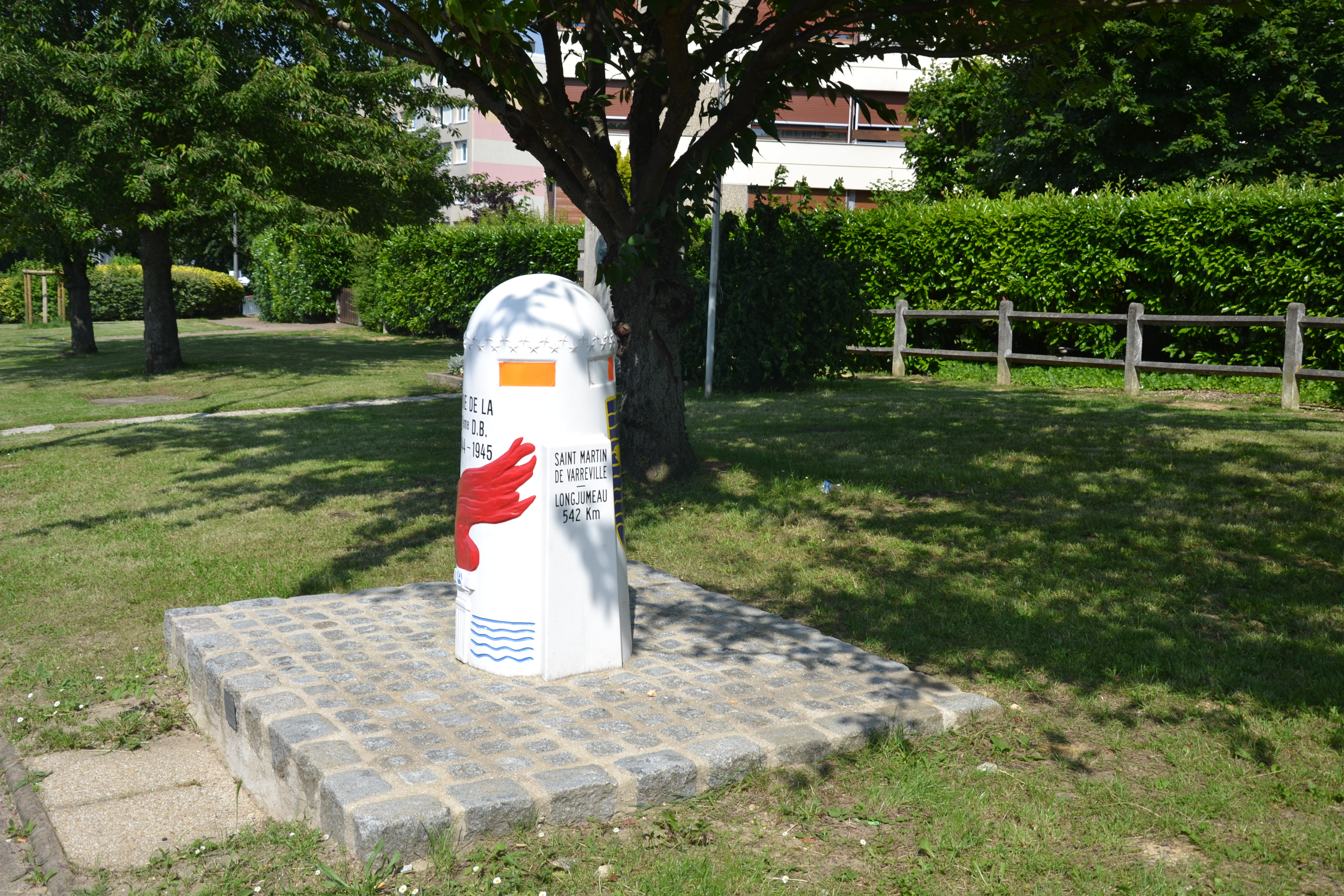 Milestone of the Liberty Road, on the way to the second DB , after landing on Utah Beach.